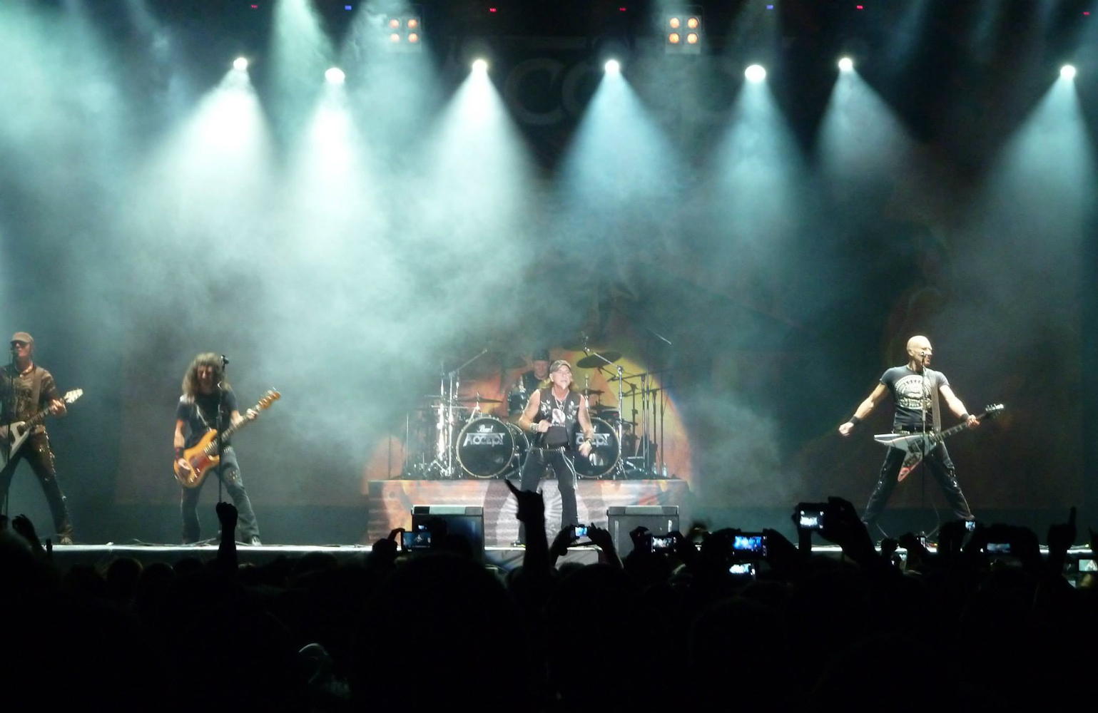 The German heavy metal band Accept performing at Kavarna Rock Fest 2013, Bulgaria.